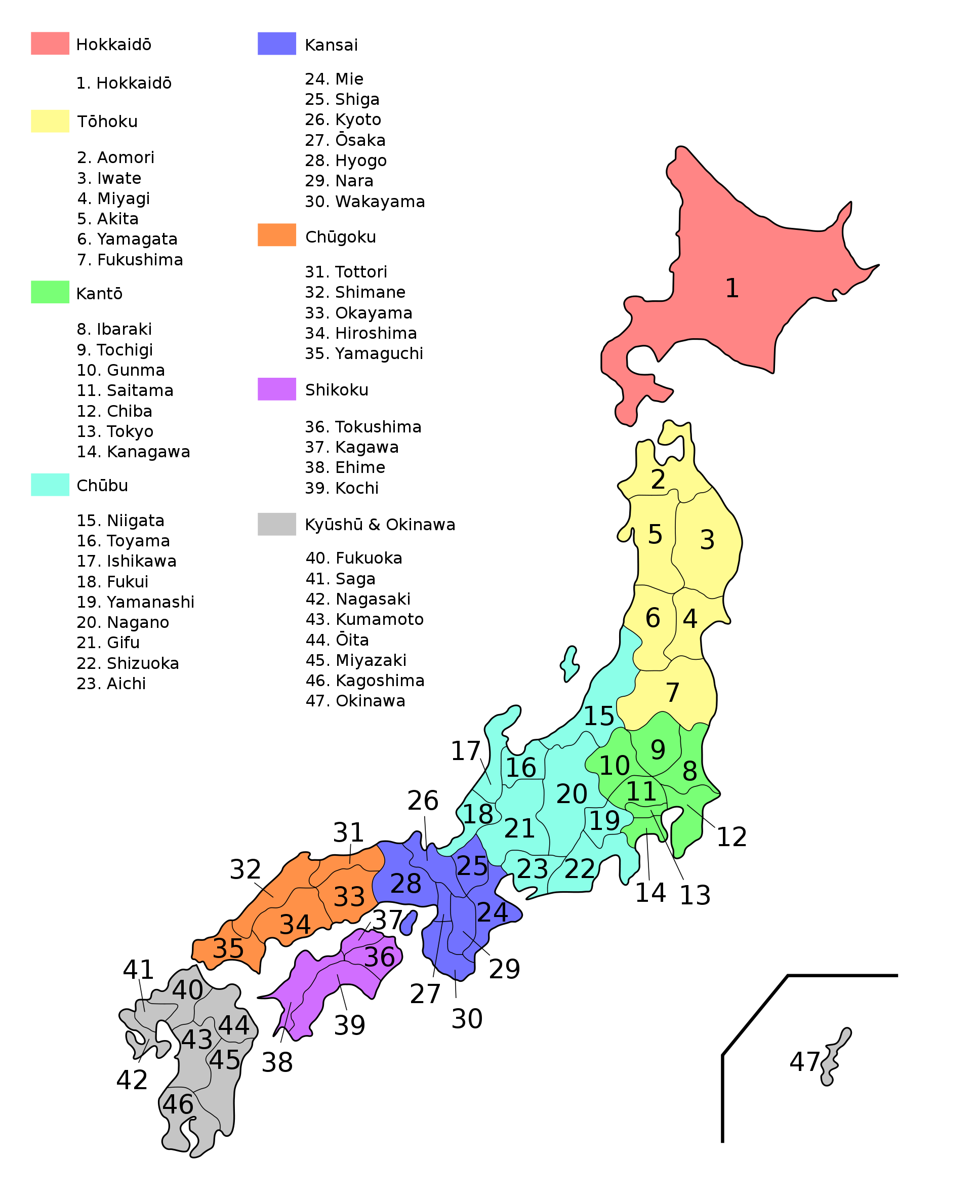 Map of the regions and prefectures of Japan in ISO 3166-2:JP order.